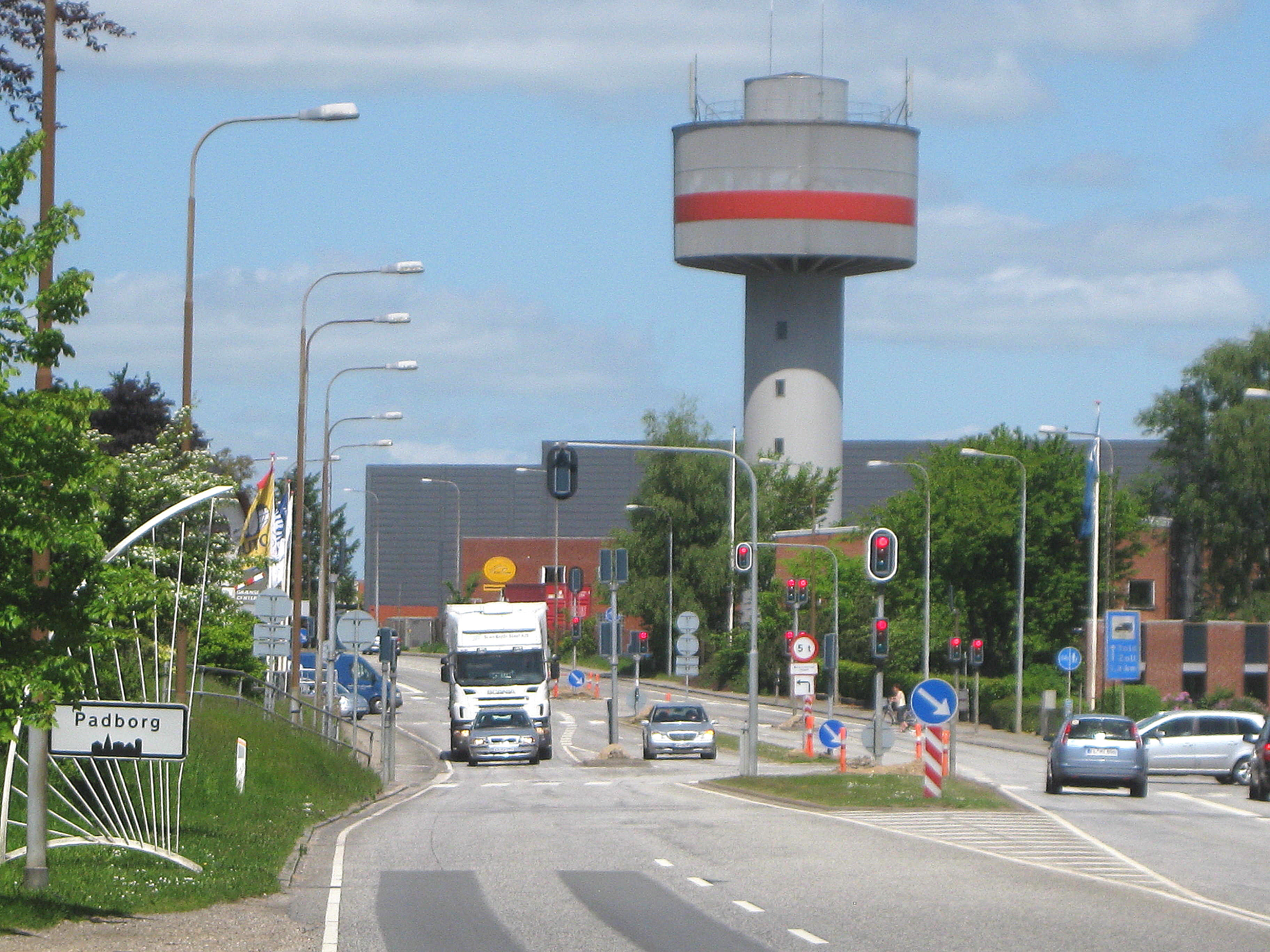 The water tower "Padborg Vandtårn" in the small town "Padborg". The town is located in Southern Jutland, Denmark, close to the German border.